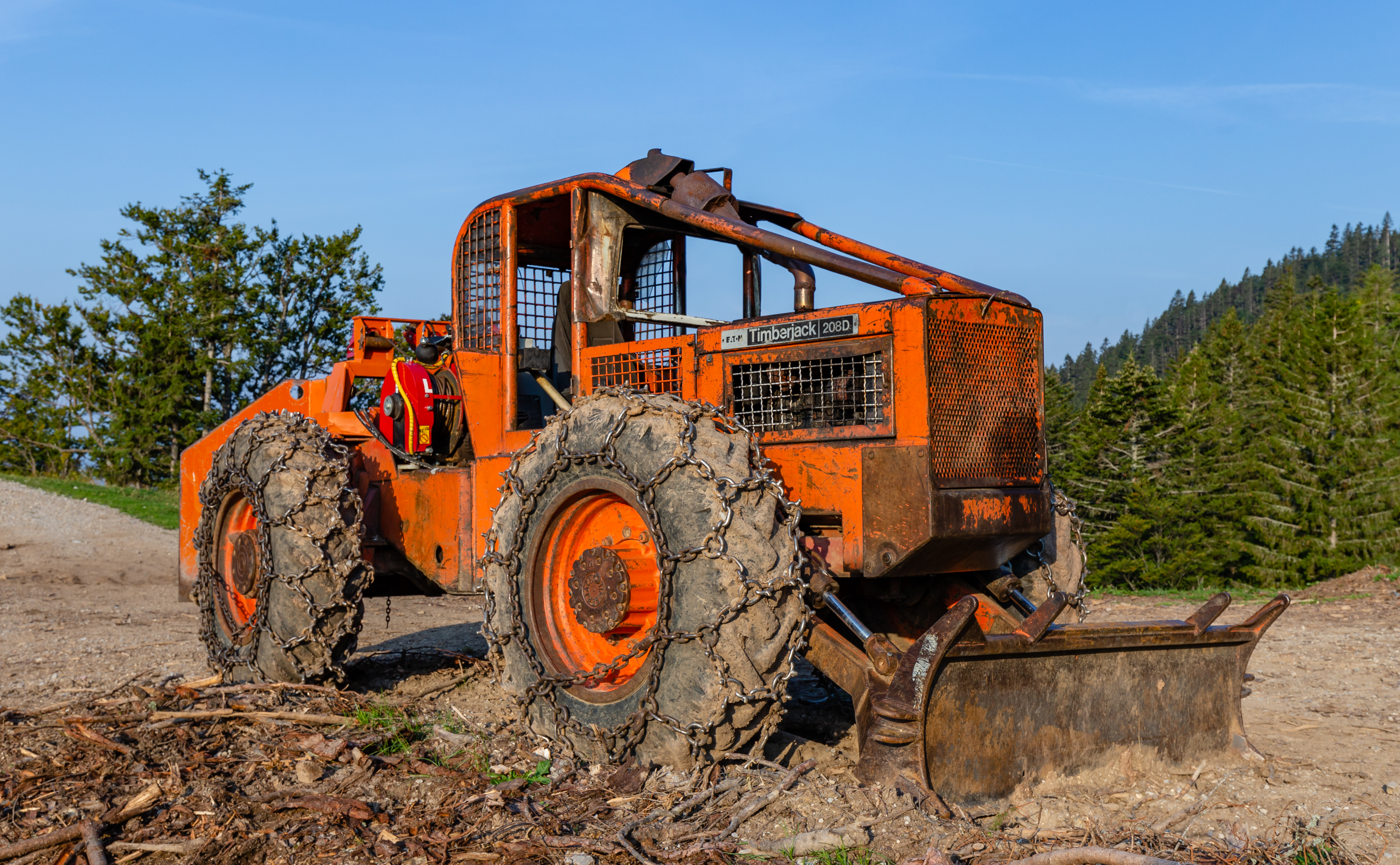 A skidder by Koča na Prevalu in Karawanks, Slovenia